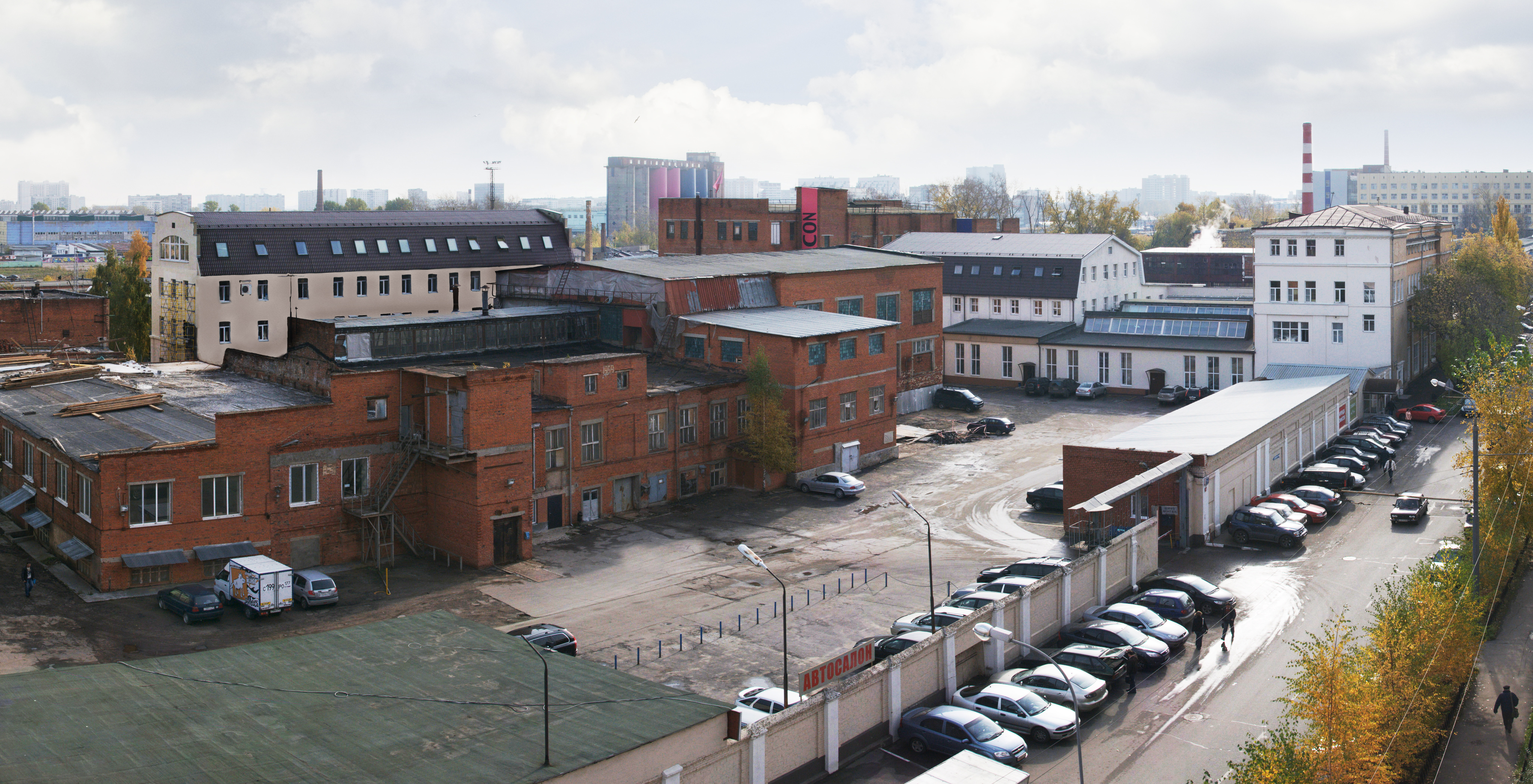 Flacon Design Factory